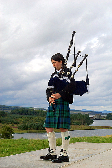 A Piper at the Lairg 2008 Crofters Show. Looking towards Lairg Dam.